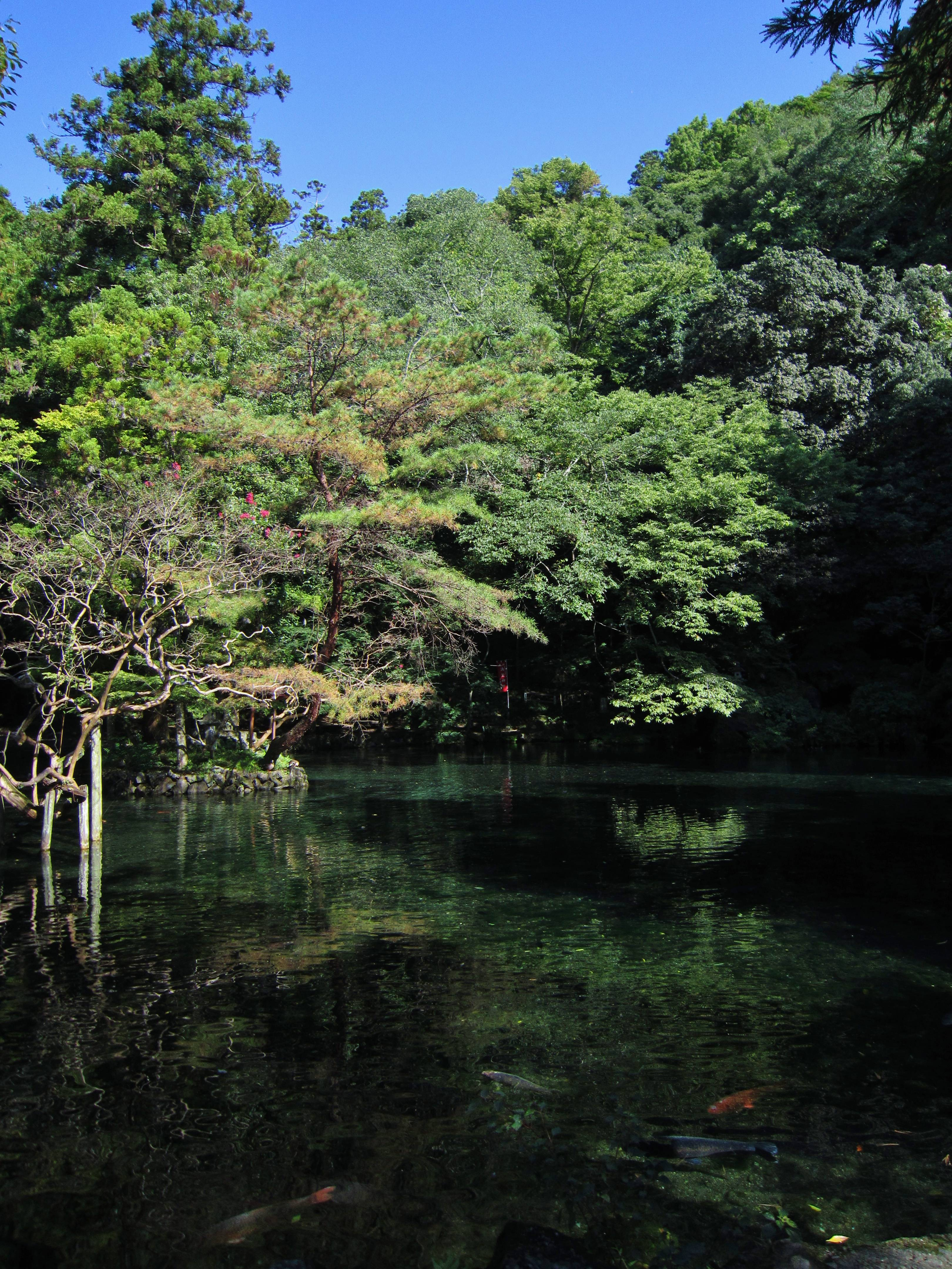 Izuruhara Benten Pond.